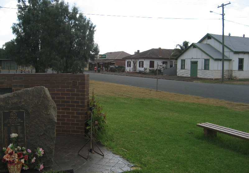 War memorial, hall, former bank & the pub